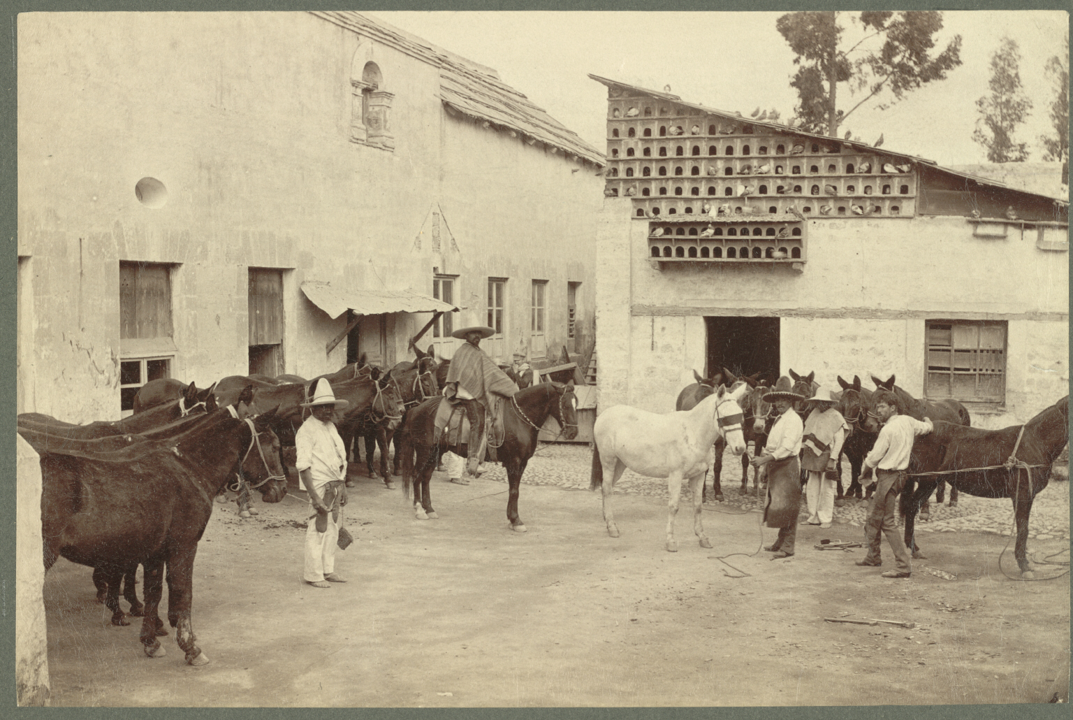 Collection: A. D. White Architectural Photographs, Cornell University Library Accession Number: 15/5/3090.00690 Title: Shoeing the Mules (Mexican Village Scene) Photographer: Abel Briquet (French, 1854-1896) Photograph date: ca. 1885-ca. 1895 Location: North and Central America: Mexico Materials: albumen print Image: 5 x 7 3/4 in.; 12.7 x 19.685 cm Provenance: Schuchardt Collection Persistent URI: There are no known U.S. copyright restrictions on this image. The digital file is owned by the Cornell University Library which is making it freely available with the request that, when possible, the Library be credited as its source.